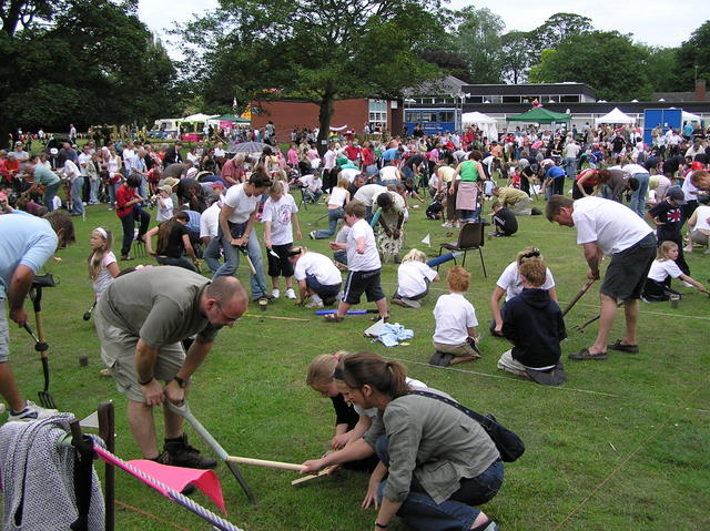 Willaston Worm Charming On Saturday 5th July 1980 local Willaston farmer's son, Tom Shufflebotham amazed a disbelieving world by charming a total of 511 worms out of the ground in half an hour. True, there had been rather dubious unsubstantiated reports of a similar activity in Florida, USA some 10 years previous, but this was the first time a true competition with strict rules had been held. The village of Willaston, near Nantwich, Cheshire has been the venue for the annual World Championships ever since.